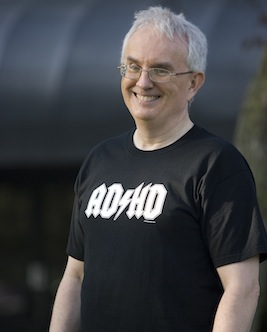 Rick Green, founder of TotallyADD